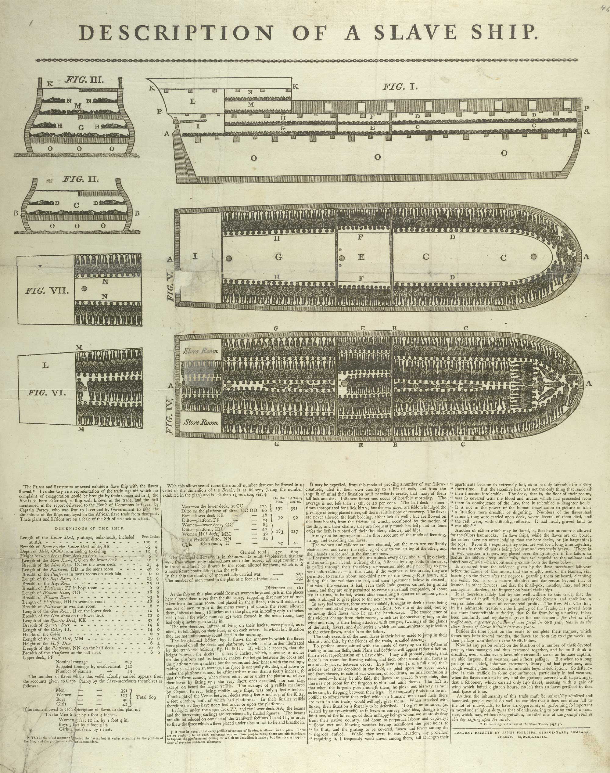 Brookes (ship). From the British Library: "This diagram of the 'Brookes' slave ship, which transported enslaved Africans to the Caribbean, is probably the most widely copied and powerful image used by those who campaigned to end the trans-Atlantic slave trade. Traders knew that many of the Africans would die on the voyage and would therefore pack as many people as possible on to their ships—in total there were 609 enslaved men, women and children on board this ship. The conditions would have been appalling. Each person occupied a tiny space in the hold. In this case they had to lie in spaces just 10 inches high and were often chained or shackled together in pairs, making movement even more difficult. The cramped conditions meant that there were high incidences of diseases such as smallpox, measles, scurvy and dysentery. Because of the long distances involved food and water was rationed and always in short supply or ran out completely."According to the British Library, the diagram had appeared in newspapers, books and posters across the UK by April 1787.